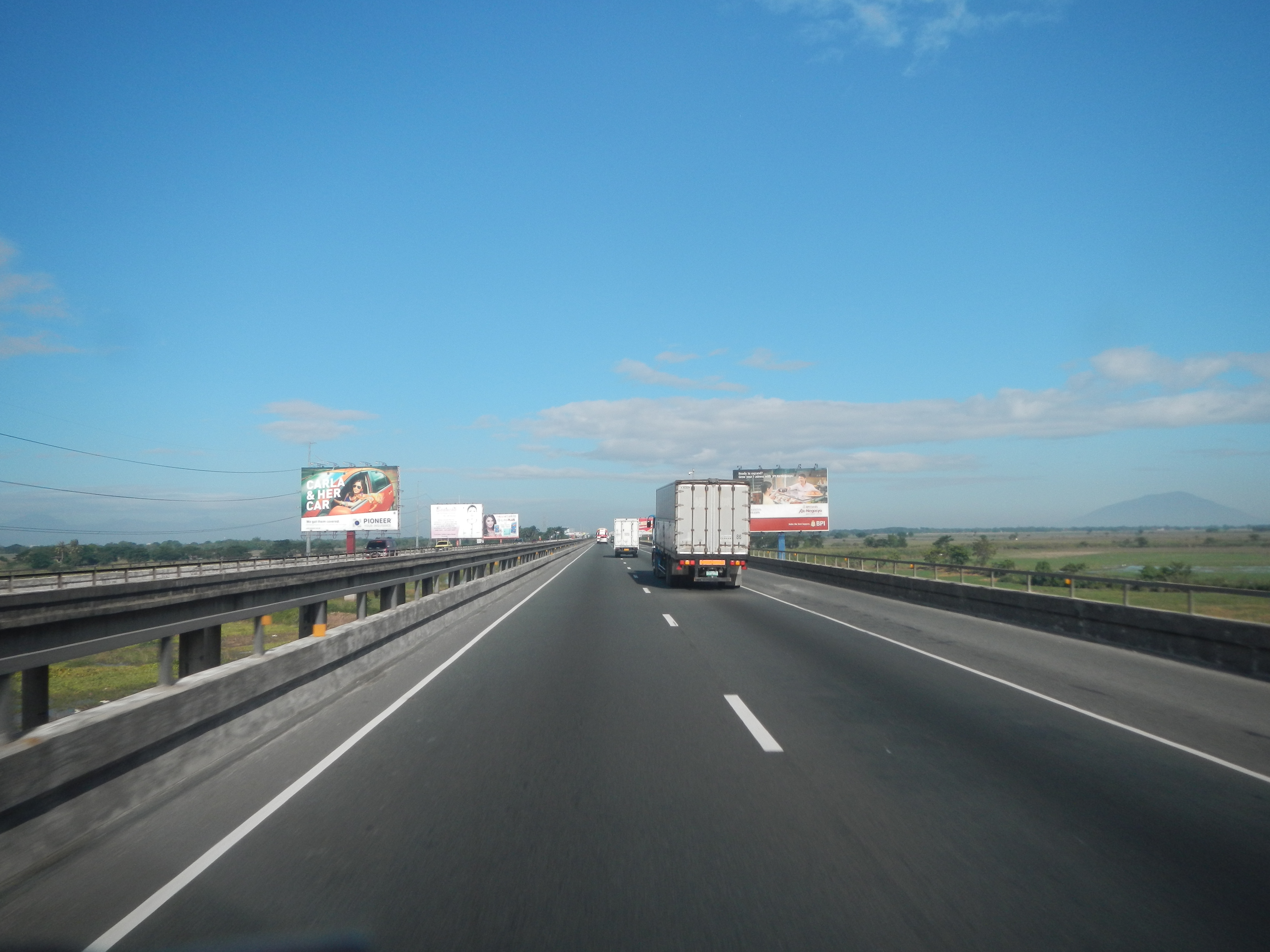 Candaba Viaduct, in North Luzon Expressway, starting at Pulilan, Bulacan, passing Candaba, Pampanga, to Apalit, Pampanga, over Candaba Wetlands or Marshlands.